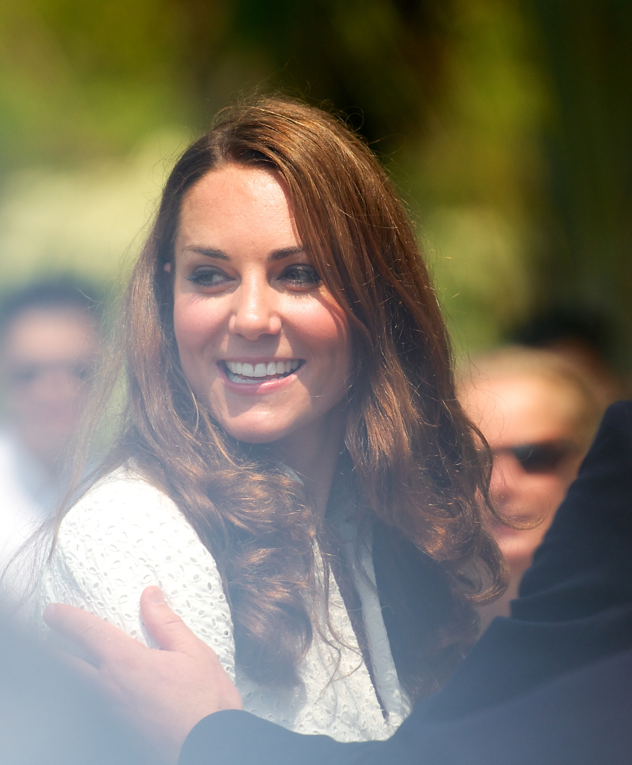 Kate Middleton